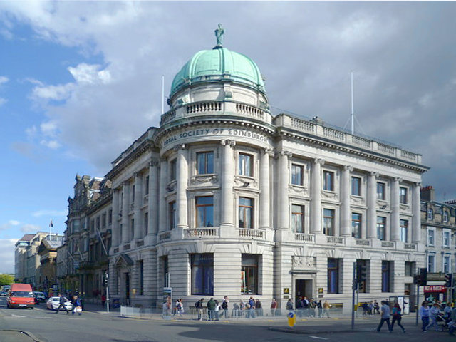 Royal Society building, 26 George Street